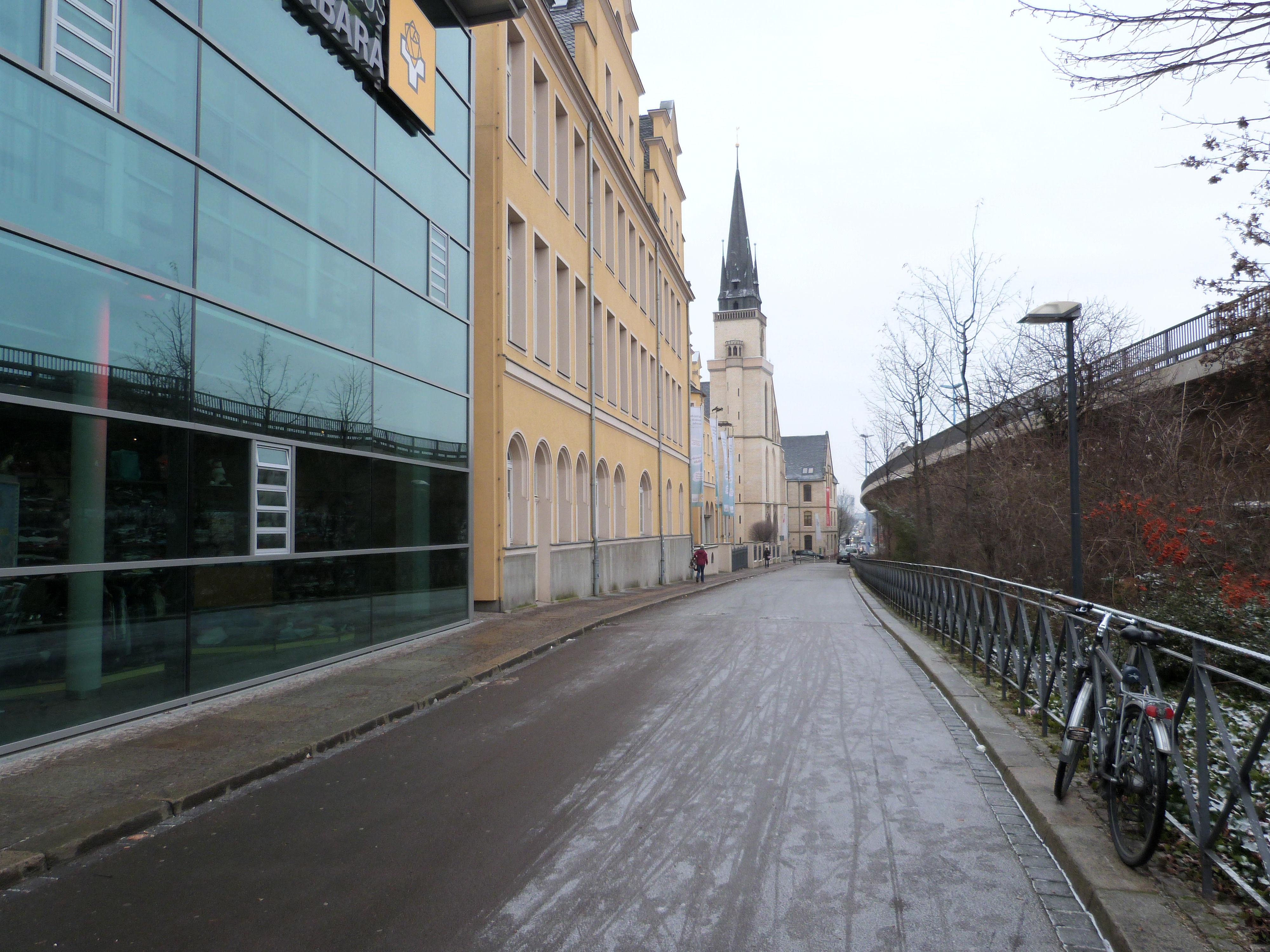 Street Mauerstraße in Halle (Saale)